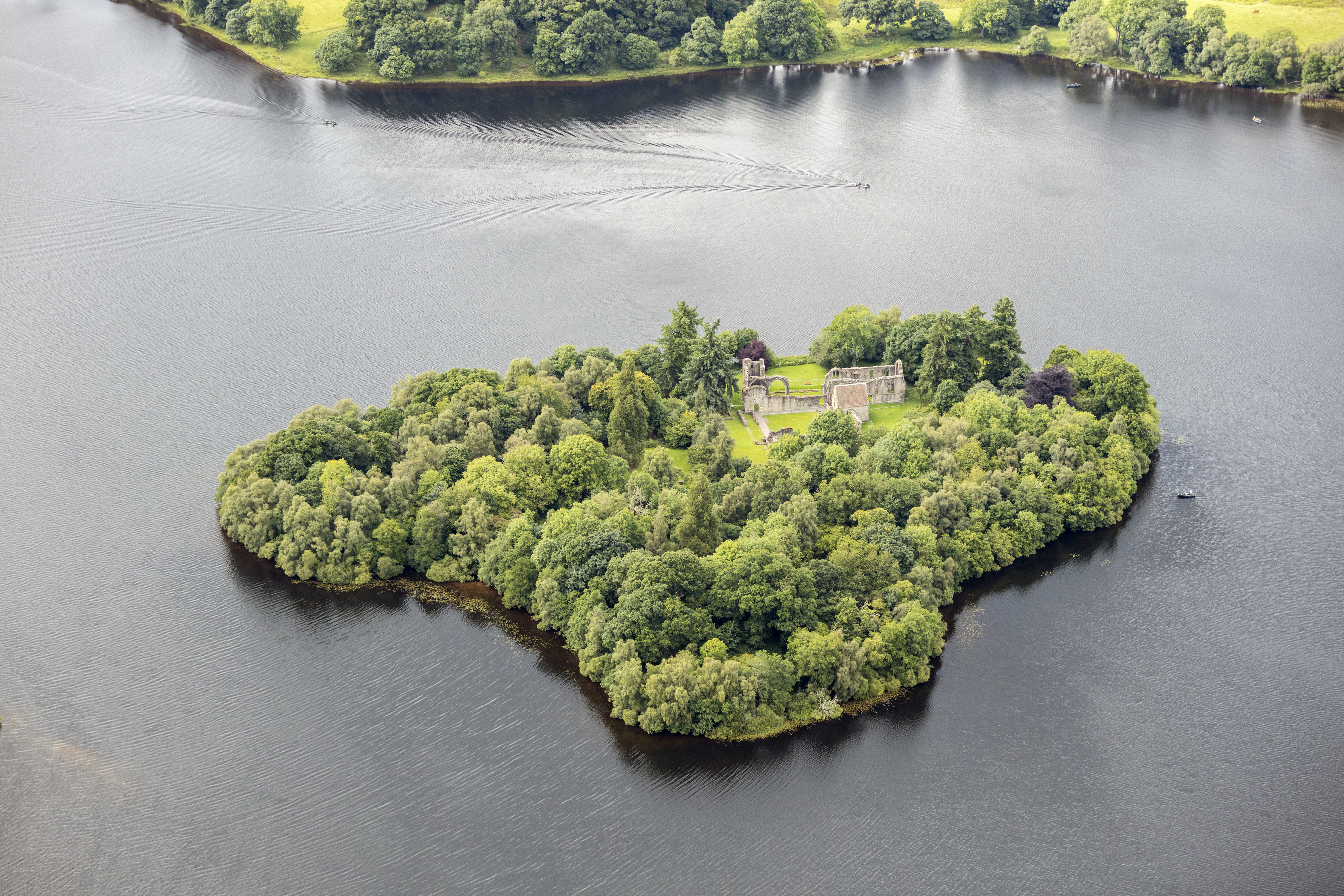 Aerial view of Inchmahome Priory, Inchmahome Island, Lake of Menteith, near Stirling, Scotland